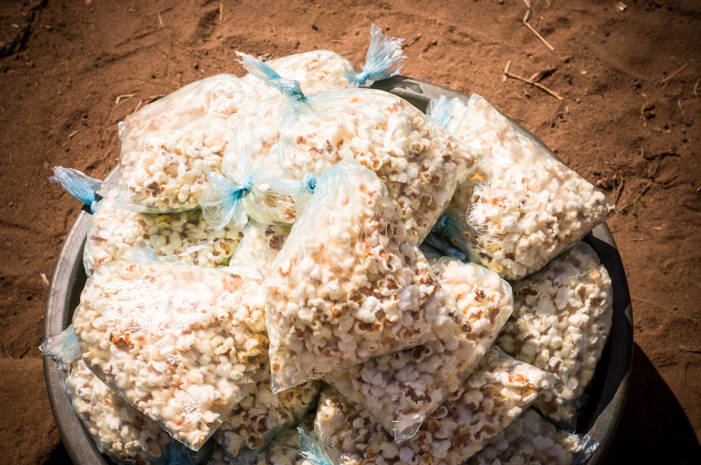 Locally produced popcorn is often sold at the markets and events where lots of people are present (like here at a religious festival in Niassa Province) This is an image of food from Mozambique